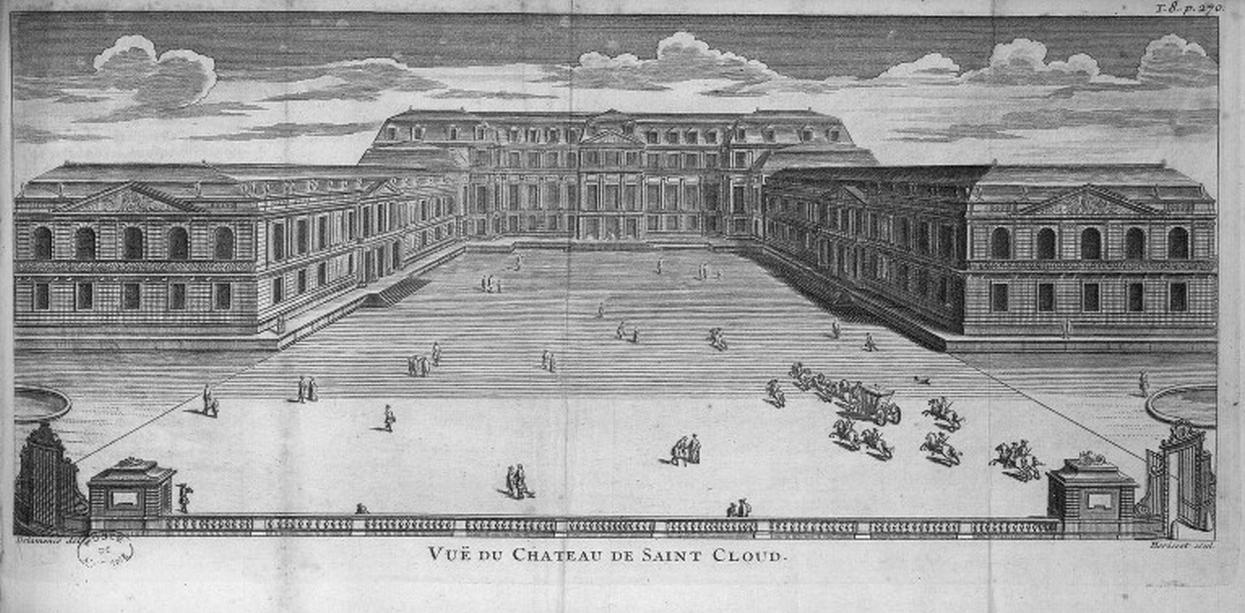 View of Saint Cloud